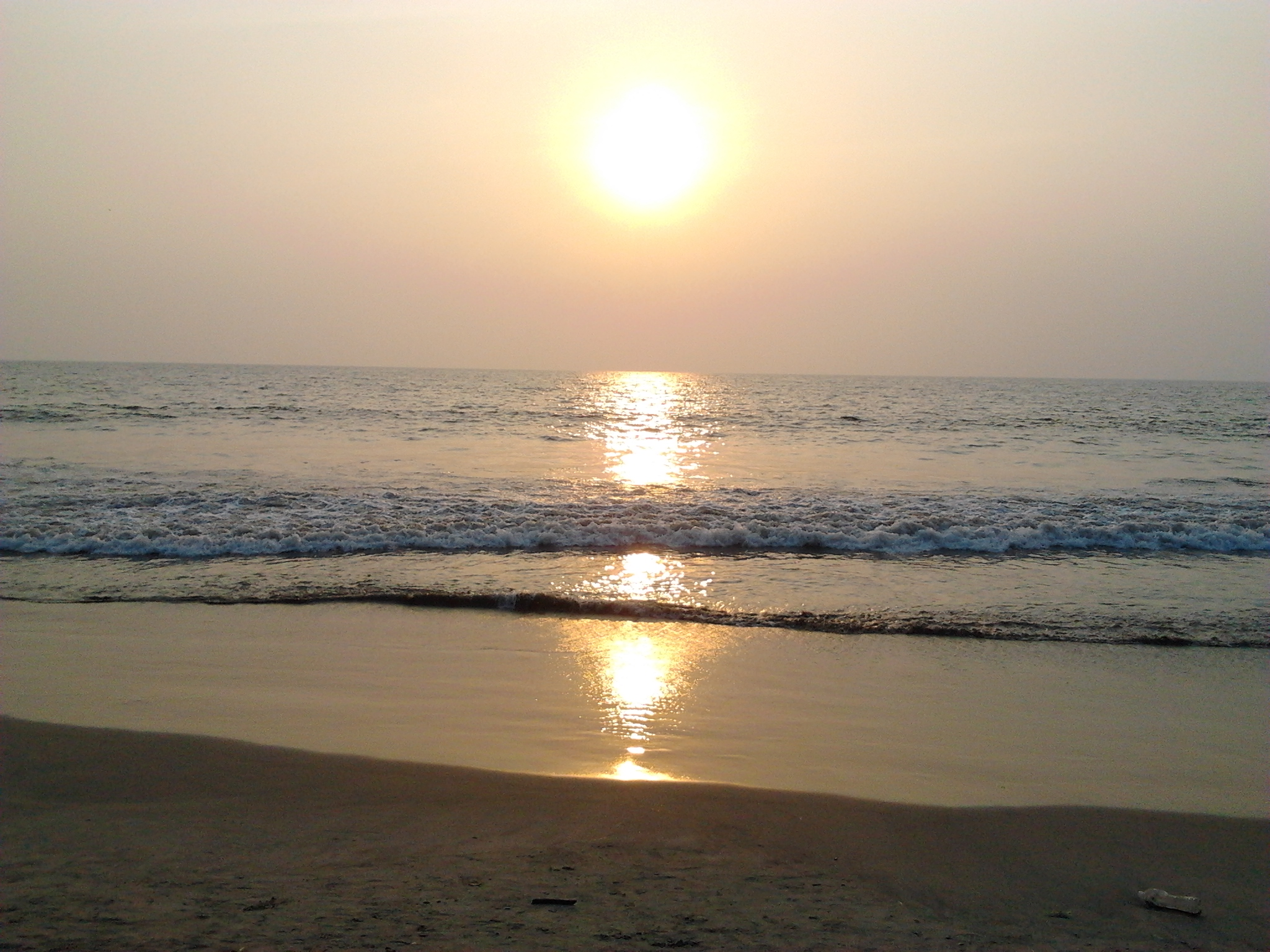 Arabian sea in Kozhikkod or Calicut